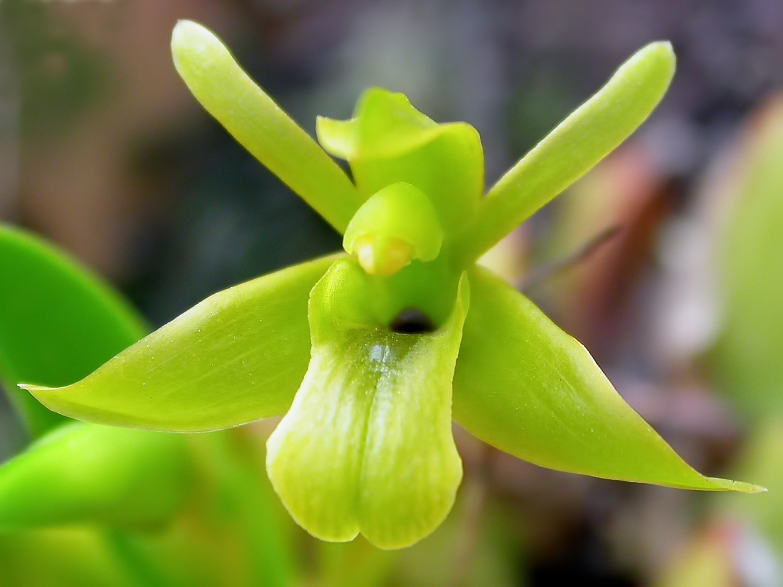 Maxillaria uniflora